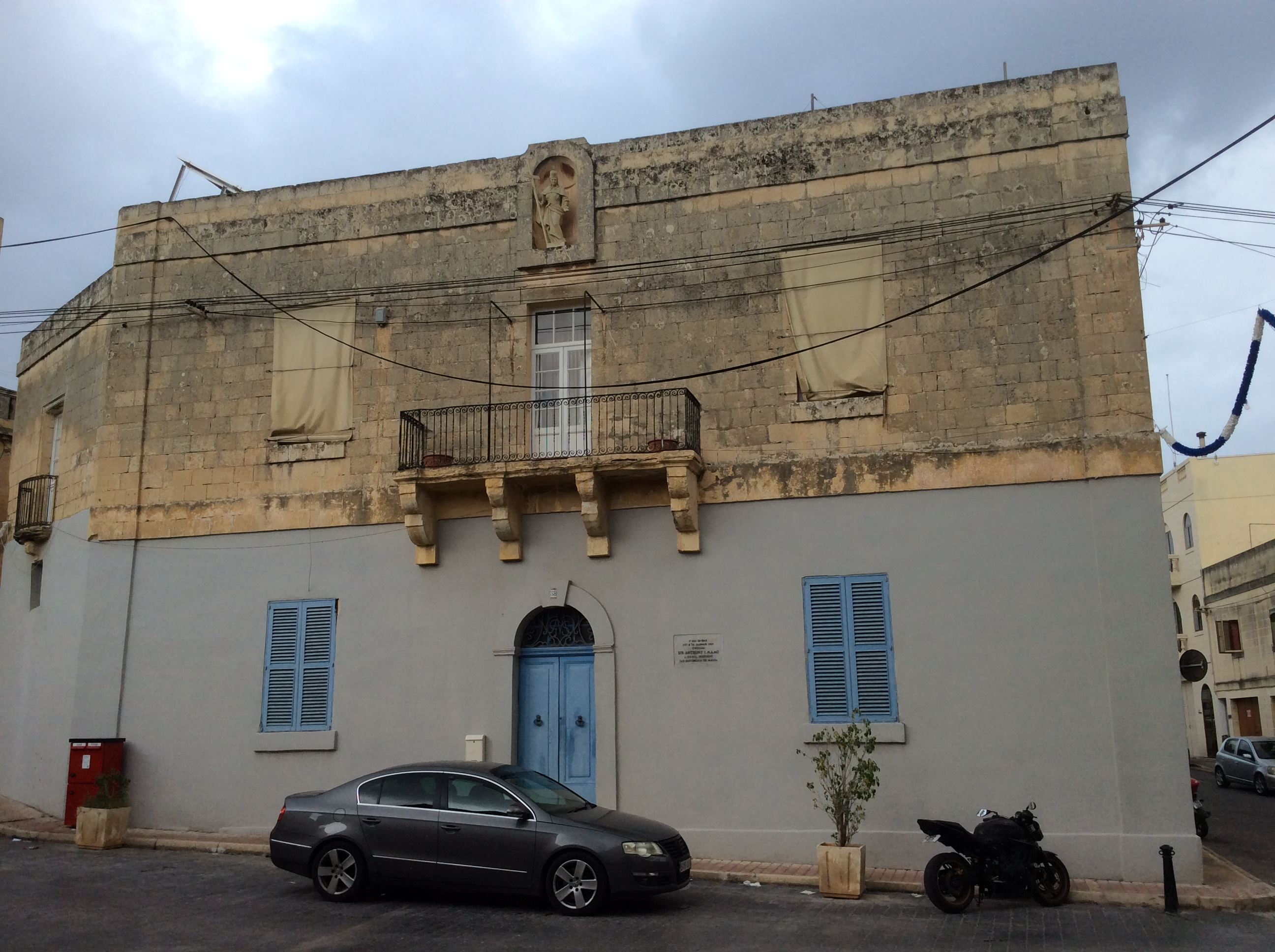 Niche of St Helen This media is about Maltese cultural property with inventory number 00317.